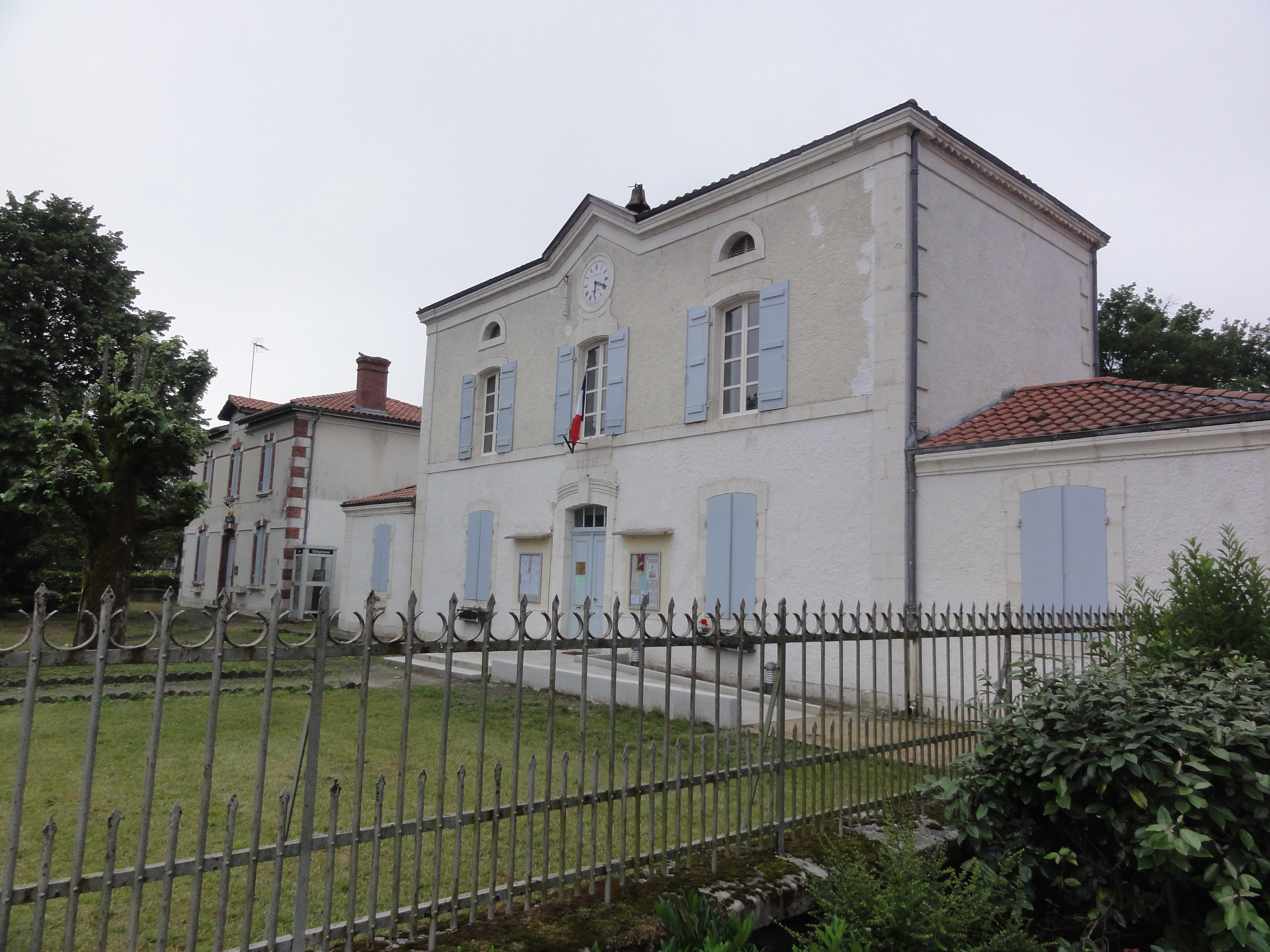 Commensacq (Landes) mairie